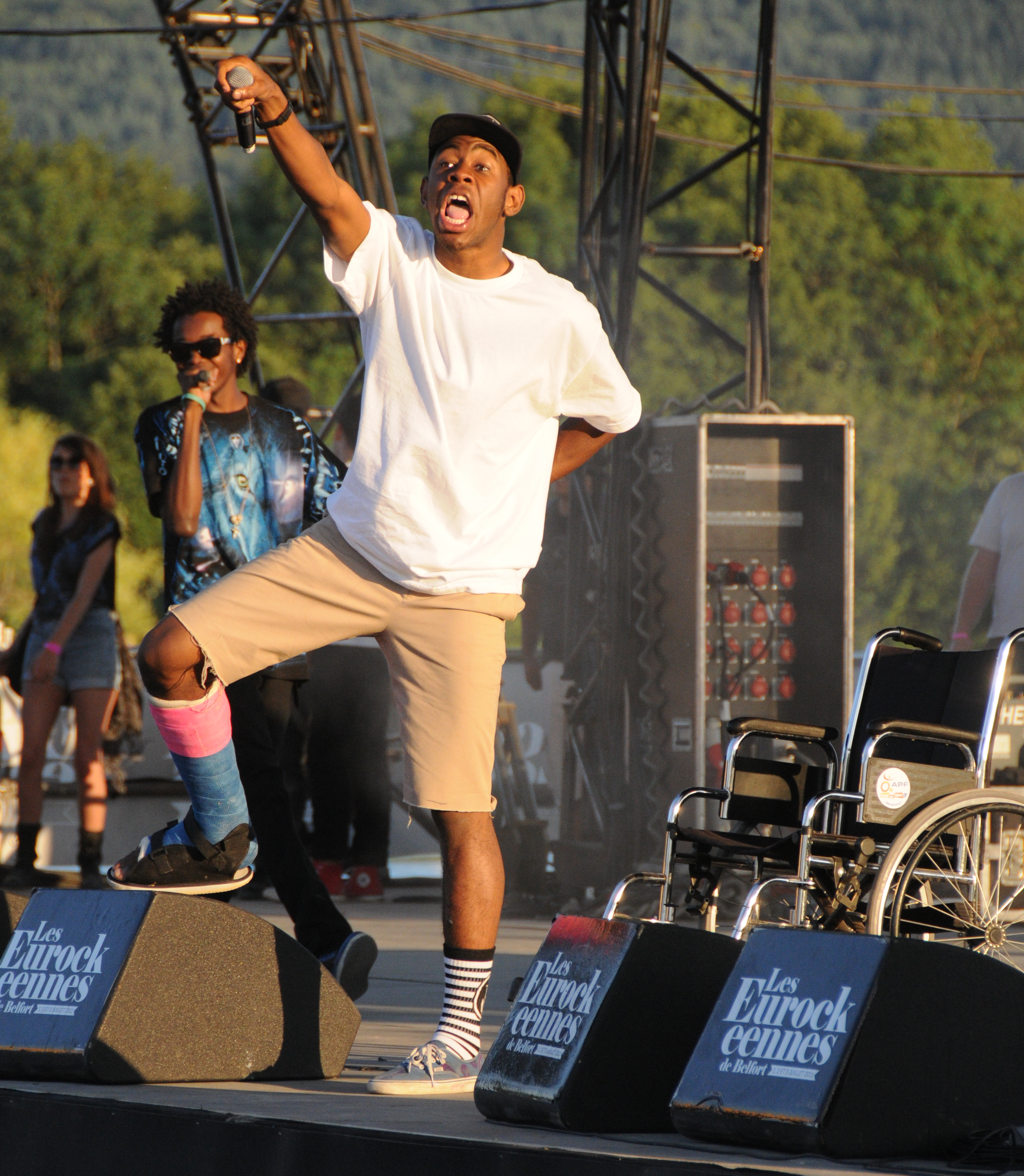 This photograph was taken with a Nikon D300 Personality rights warningAlthough this work is freely licensed or in the public domain, the person(s) shown may have rights that legally restrict certain re-uses unless those depicted consent to such uses. In these cases, a model release or other evidence of consent could protect you from infringement claims.